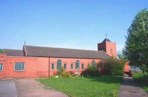 Parish church of St Mary Magdalene, Pontefract Lane, Lundwood, South Yorkshire, seen from the southeast